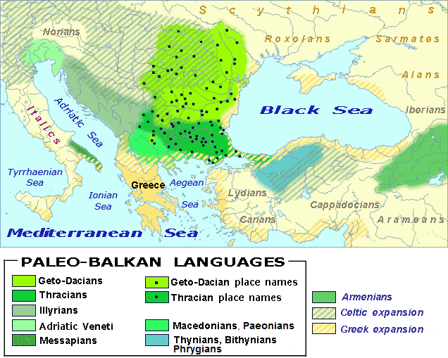 Distribution of Paleo-Balkan languages in Eastern Europe and Asia Minor according to Ivan Duridanov (including modern updates). The map covers the people present in the area between 5th and 1st century BC. It does NOT represent a specific time in that period - it is not a map of a real synchronic situation